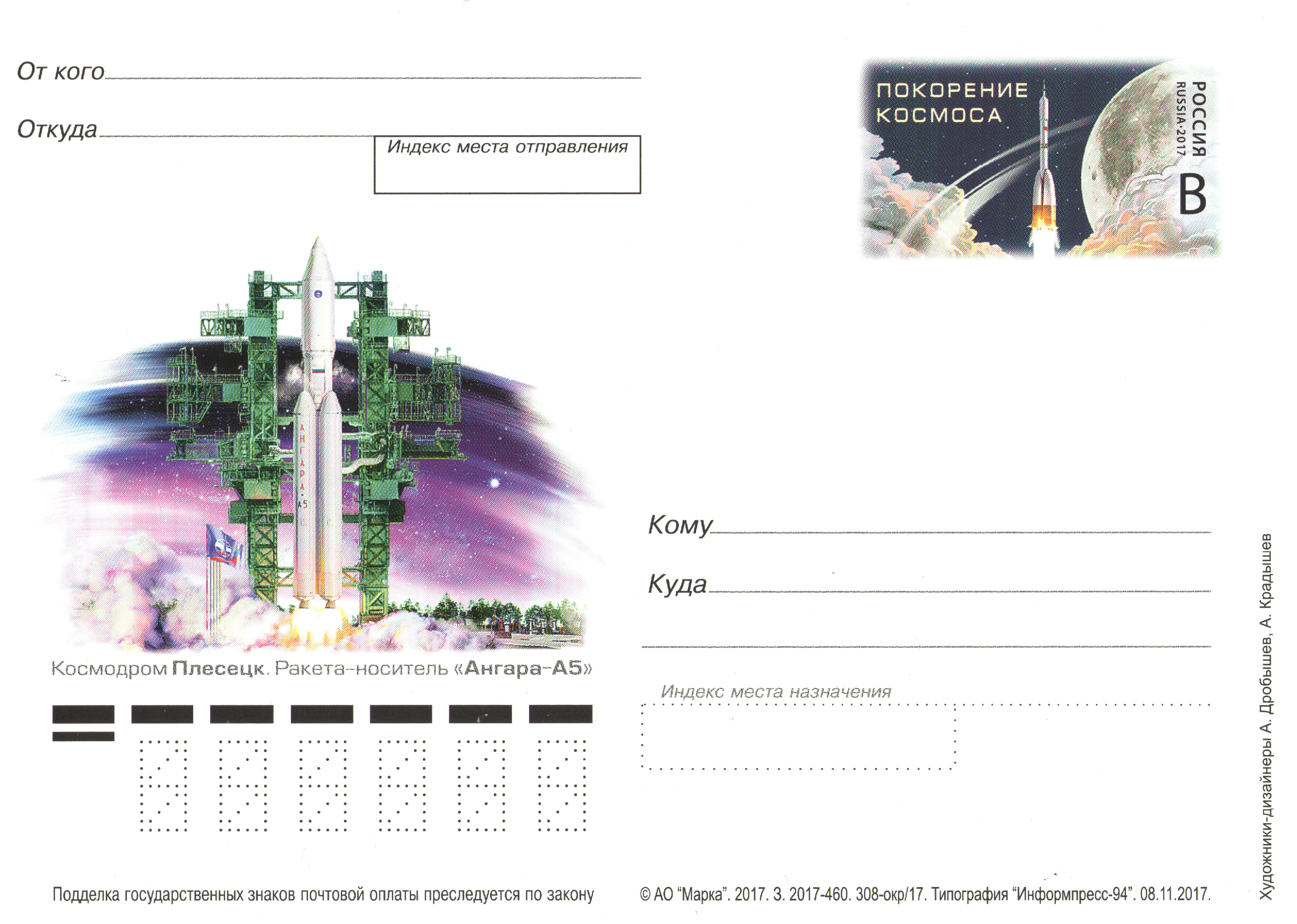 Russian postal card of Plesetsk Cosmodrome with the Space Exploration B stamp.